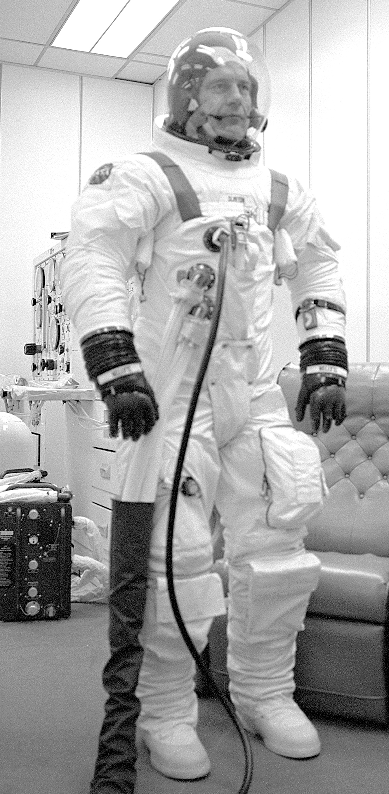 Apollo Soyuz Test Project (ASTP) Prime Crew Member Donald "Deke" K. Slayton suits up for an altitude test of the Apollo command module in an altitude chamber of KSC's Manned Spacecraft Operations Building (MSOB).